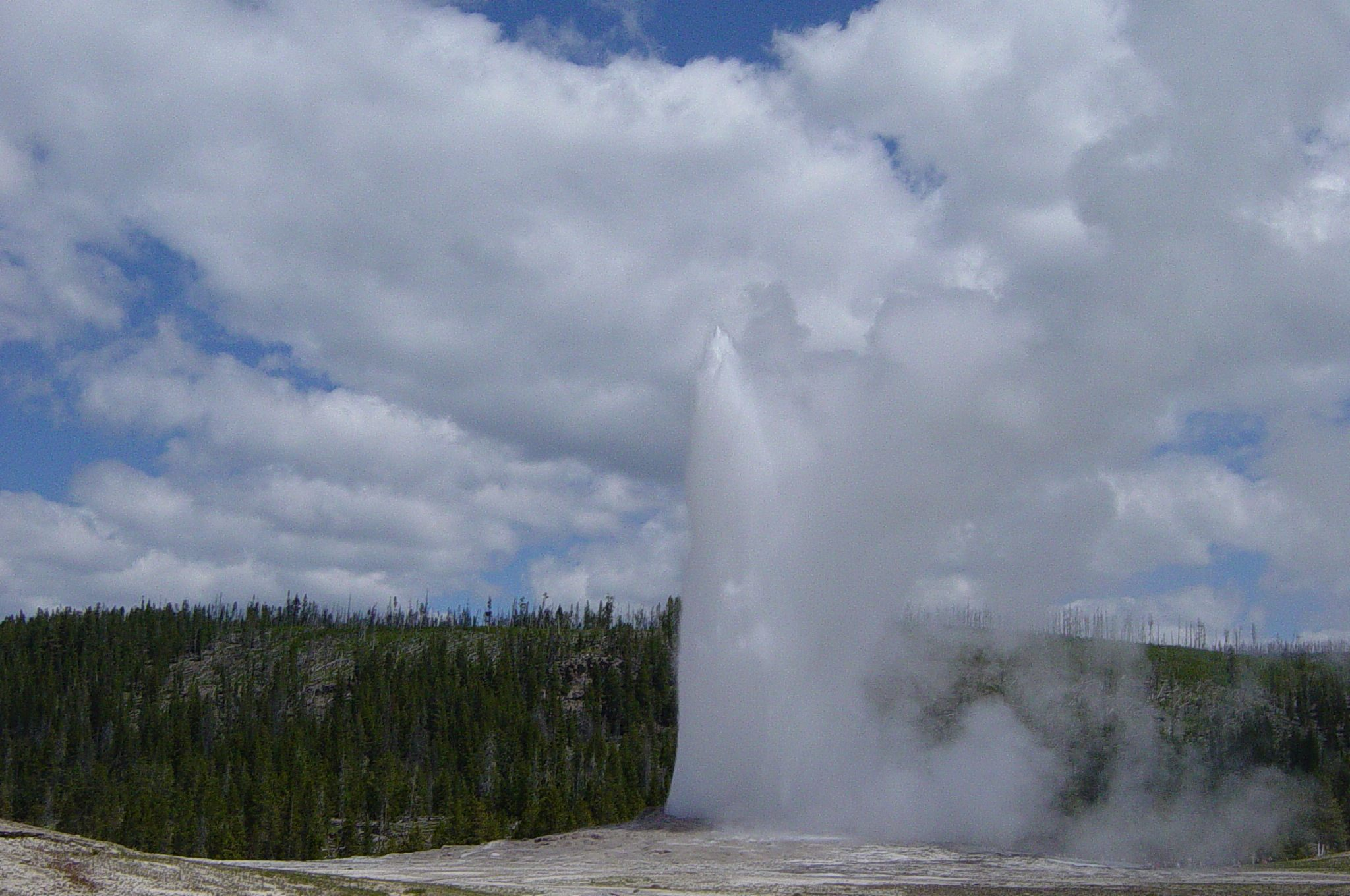 Photo taken in the Yellowstone area.